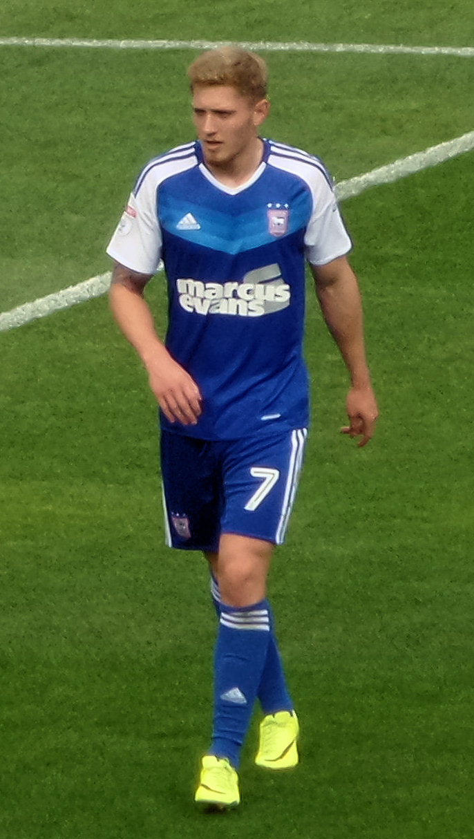 Teddy Bishop playing for Ipswich Town against Barnsley on 6 August 2016